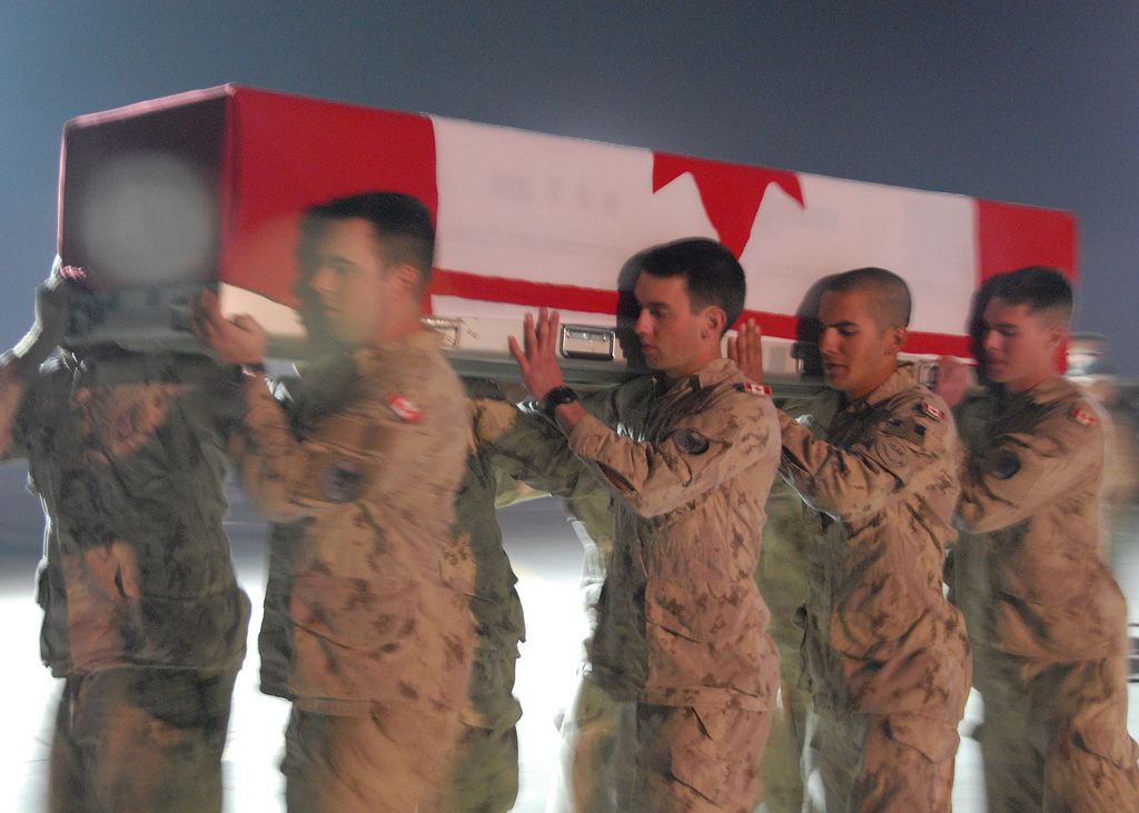 KANDAHAR, Afghanistan--Troops deployed to International Security Assistance Force (ISAF) Regional Command South gathered on the flightline of Kandahar Air Field to salute fallen Canadian servicemember Sapper Sean David Greenfield on February 1, 2009. Greenfield, who was deployed as part of the 24 Field Engineers Squadron out of Petawawa, Ontario, was killed in action in the Zhari District of Kandahar Province on Jan. 31, 2009 ISAF photo by U.S. Navy Petty Officer 2nd Class Aramis X. Ramirez (RELEASED).